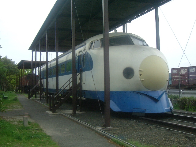 Preserved 0 series shinkansen car 21-73 at Shinkansen Park in Settsu, Osaka